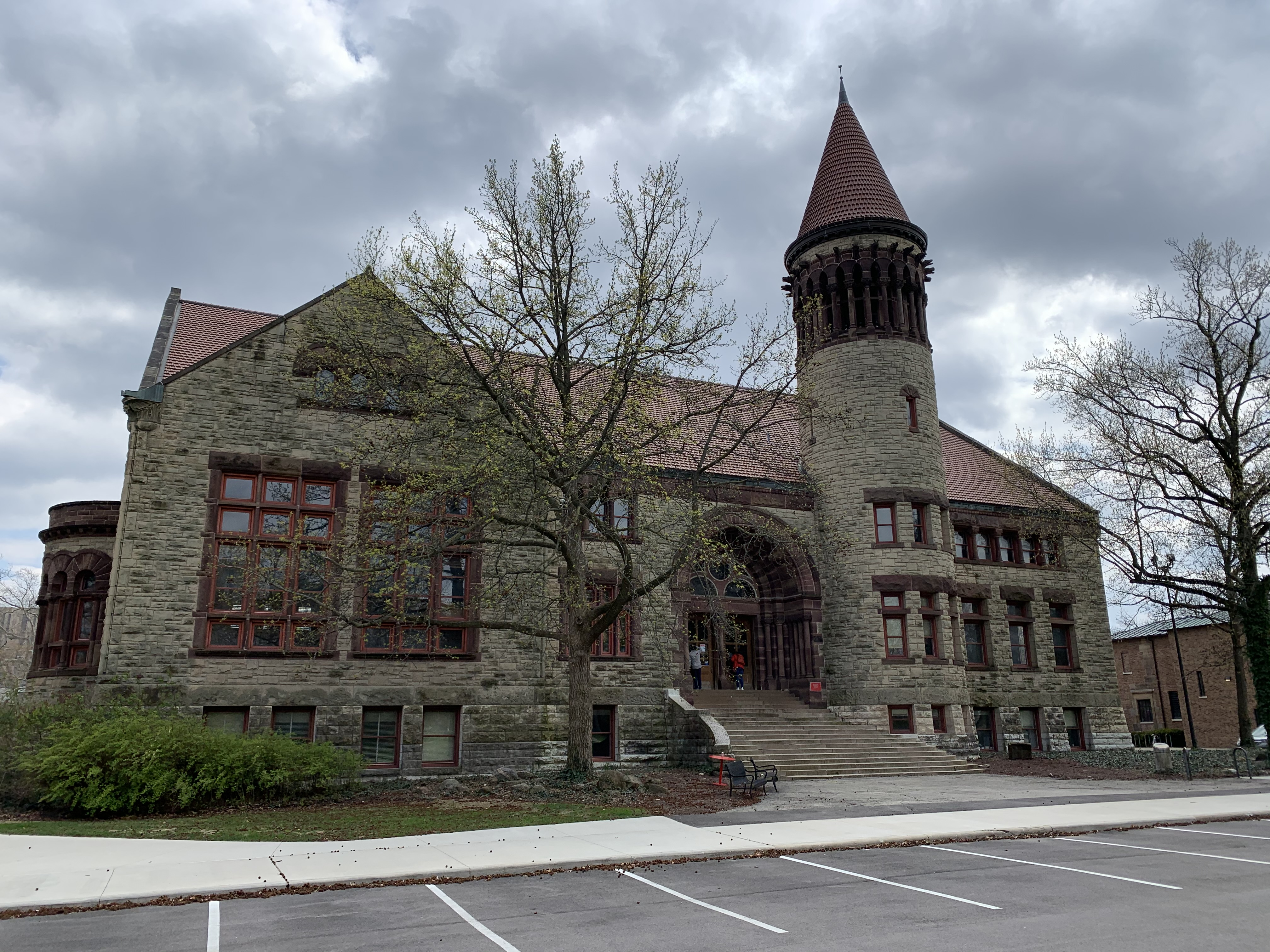 Mendenhall Laboratory at The Ohio State University in April 2020. The building is home to the Geology Library and the Orton Geological Museum.